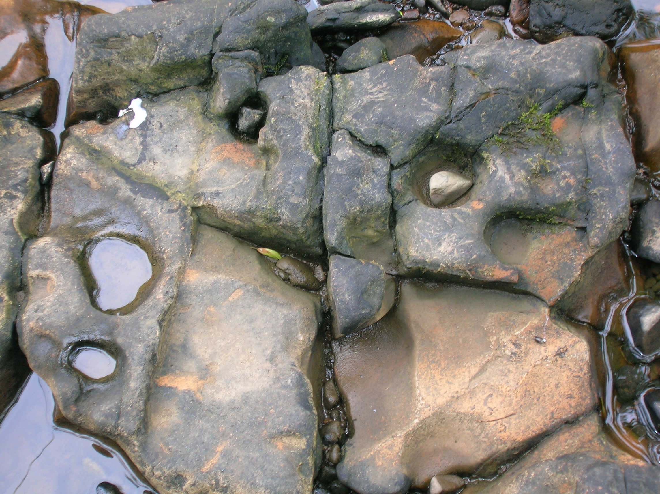 Rock-cut basins with some showing the pebble which the kolk spins to cause the erosion. Caaf Water, Lynn Glen, Dalry, Ayrshire, Scotland